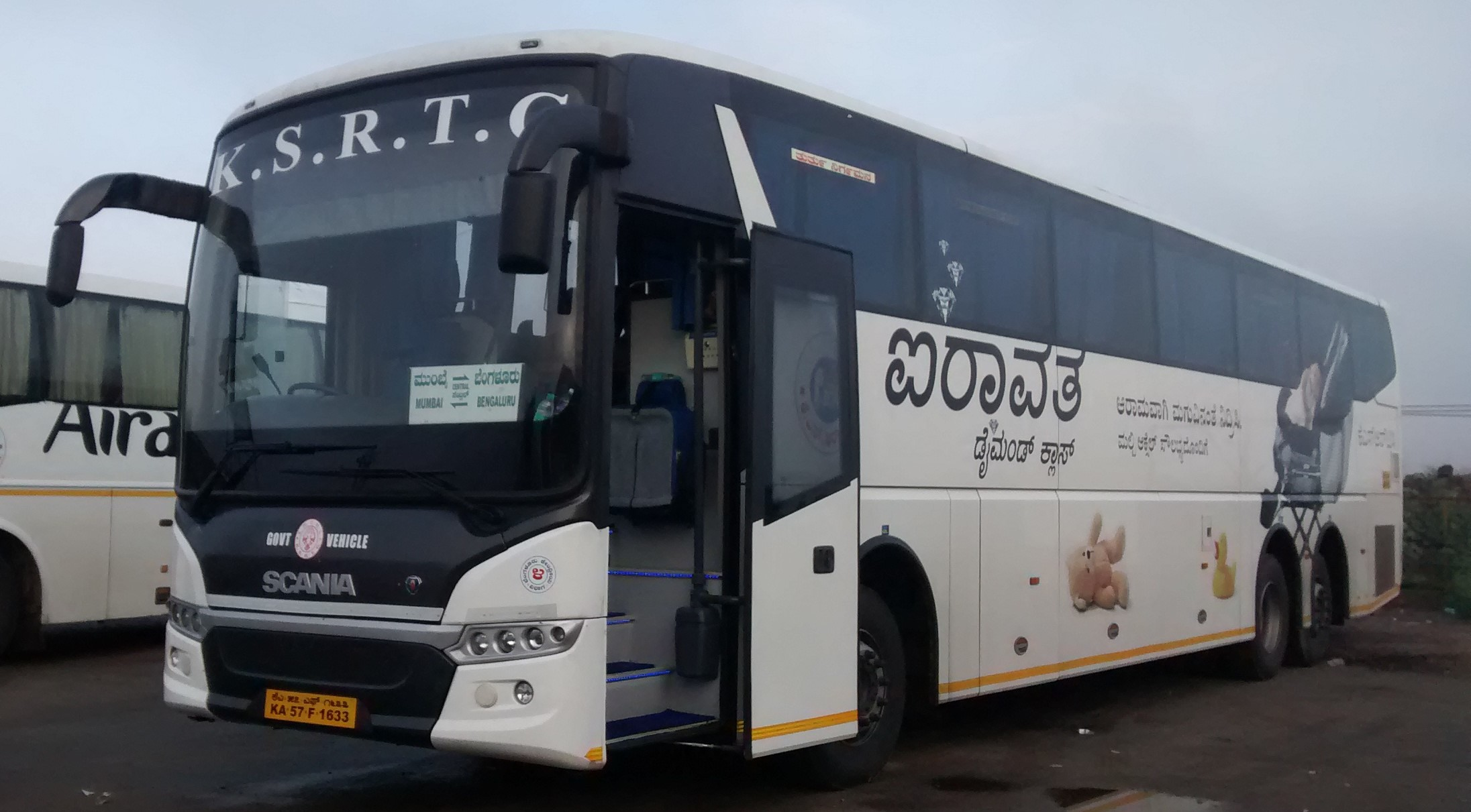 KSRTC Airavat Diamond Class Scania